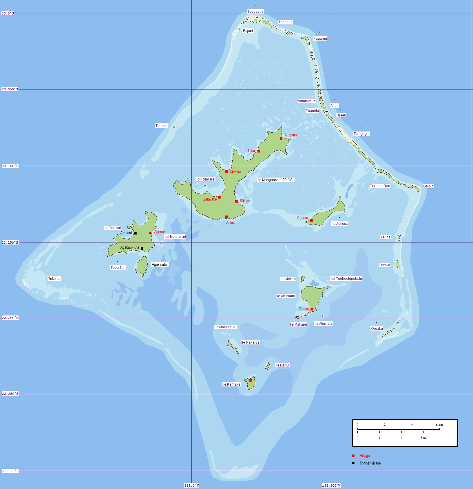 Map of Gambier Islands in English.